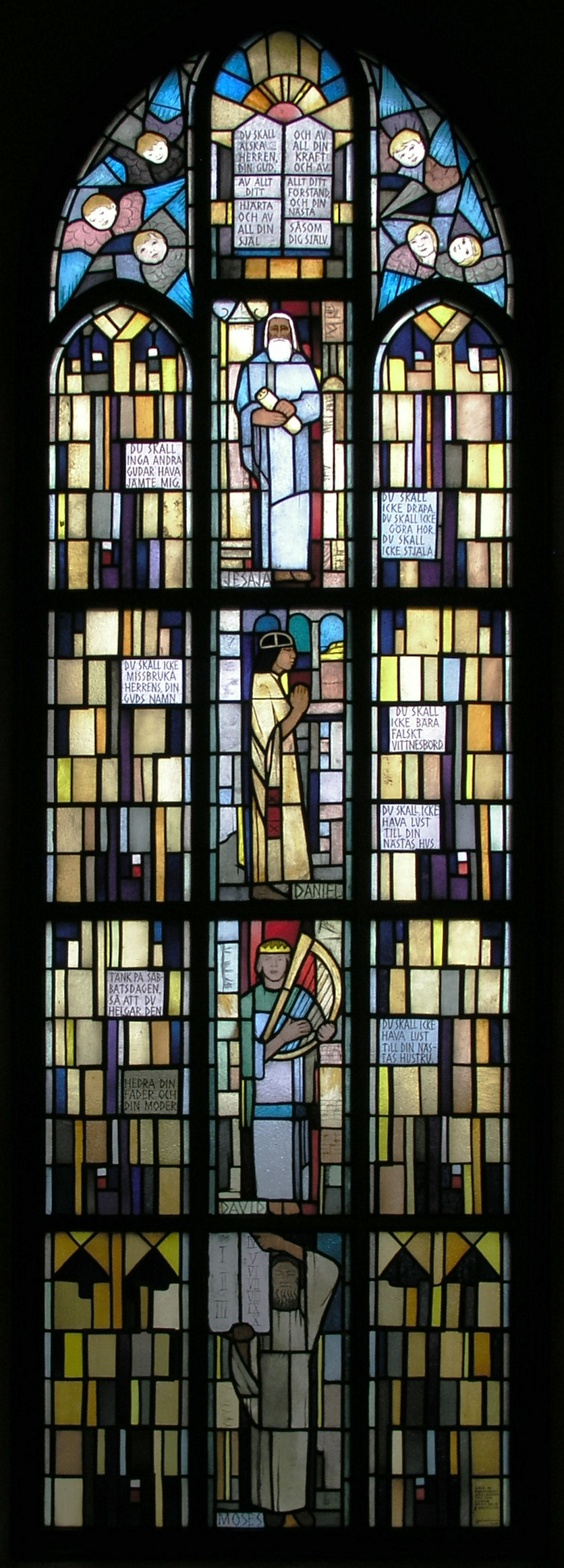 Stained glass window representing Isaiah, Daniel, David and Moses in Danmarks church, diocese of Uppsala.